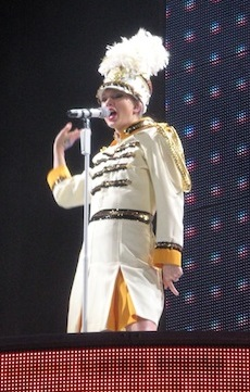 Opening the show